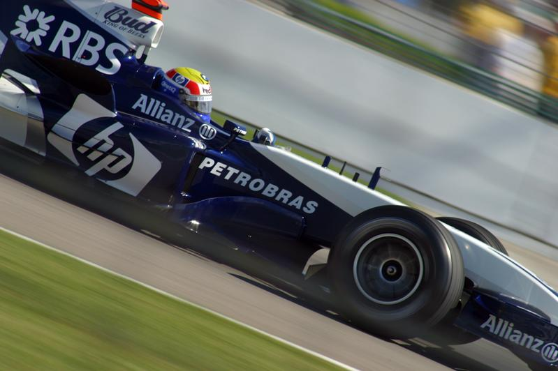 Mark Webber driving for Williams at the 2005 United States Grand Prix.